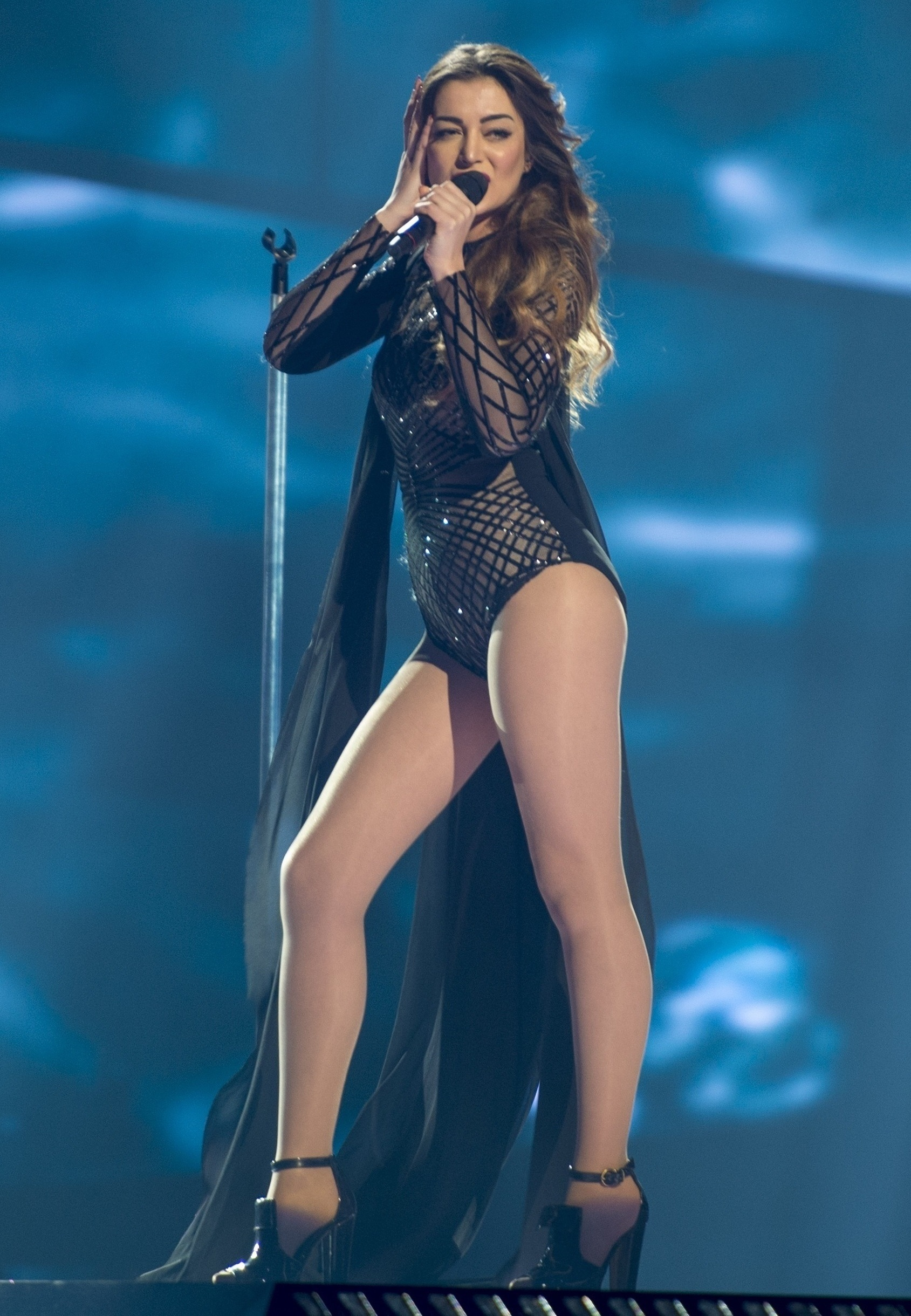 Iveta Mukuchyan representing Armenia with the song "LoveWave" during a rehearsal before the first semi final of the Eurovision Song Contest 2016 in Stockholm. (Help translate this text)